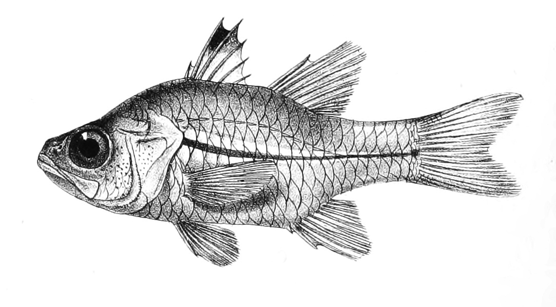 The species names / identity need verification. The original plates showed the fishes facing right and have have been flipped here. Apogon ceramensis